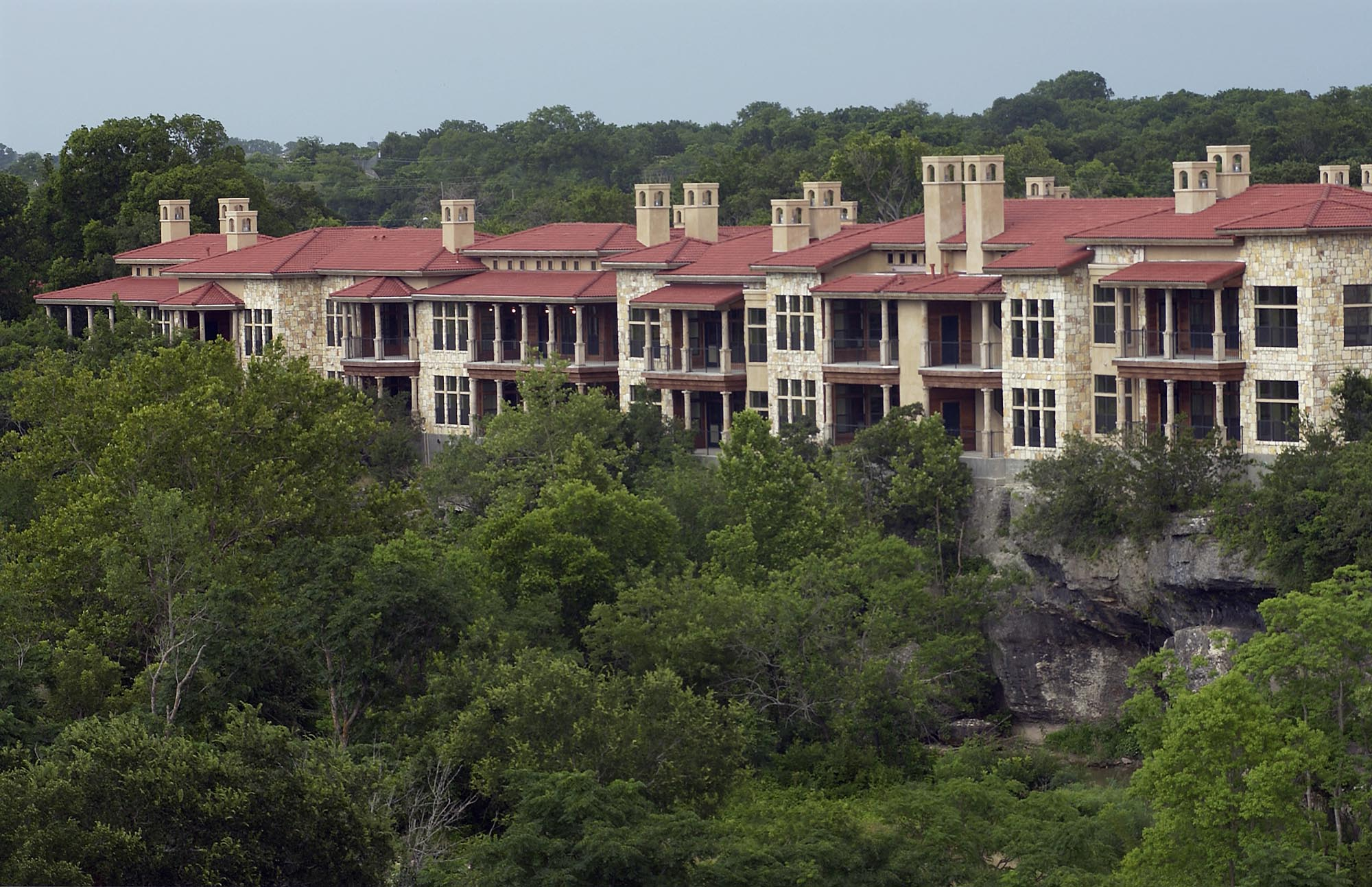 San Gabriel Village development Georgetown, Texas Image I made myself, June 2008. License under CCA-SA-3.0 Austex • Talk 19:41, 12 August 2010 (UTC)